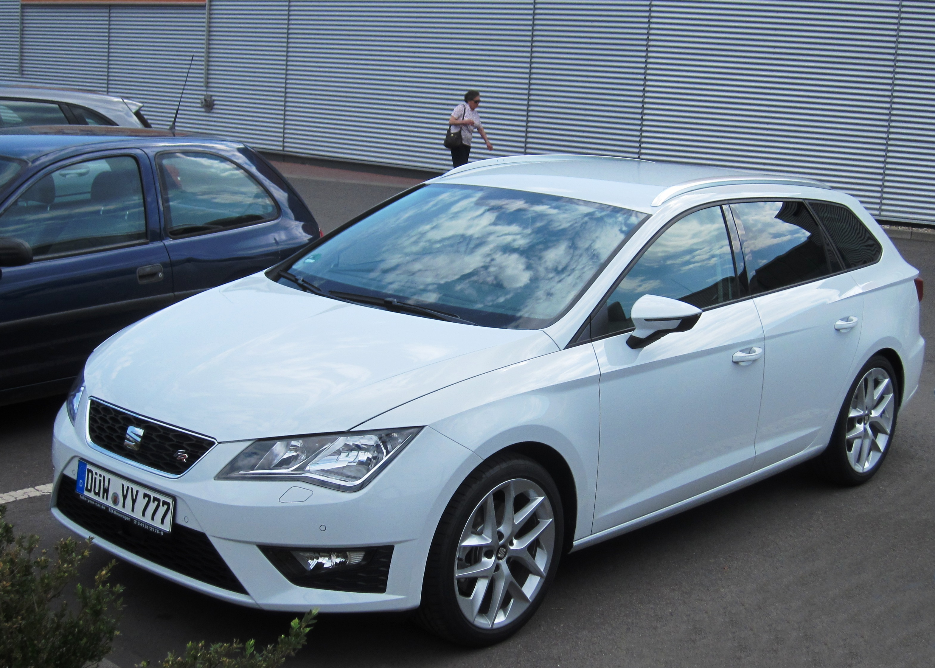 Seat Leon ST bei Globus (NW)